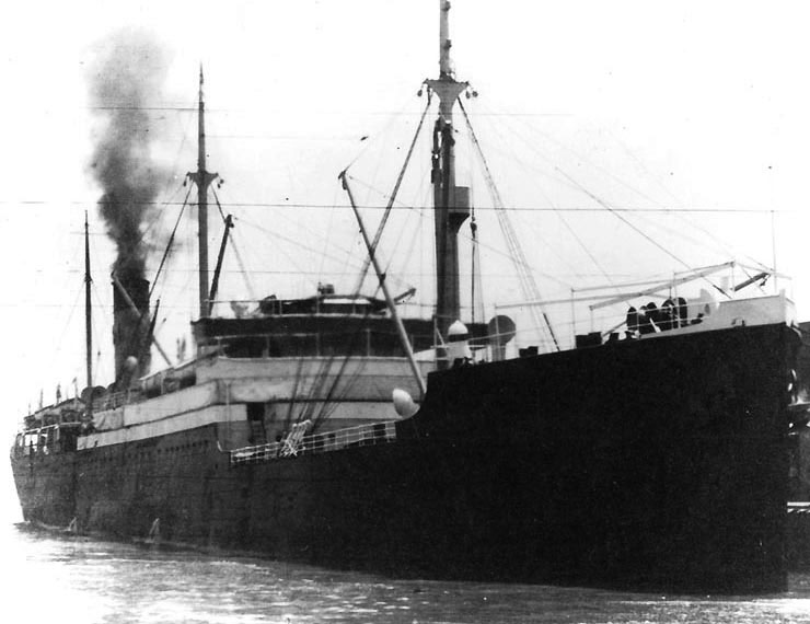 S.S. Wilhelmina (American Passenger-Cargo Ship, 1909) In port, circa 1917, while operating commercially for the Matson Navigation Company. This ship was USS Wilhelmina (ID # 2168) in 1918-1919. U.S. Naval Historical Center Photograph.